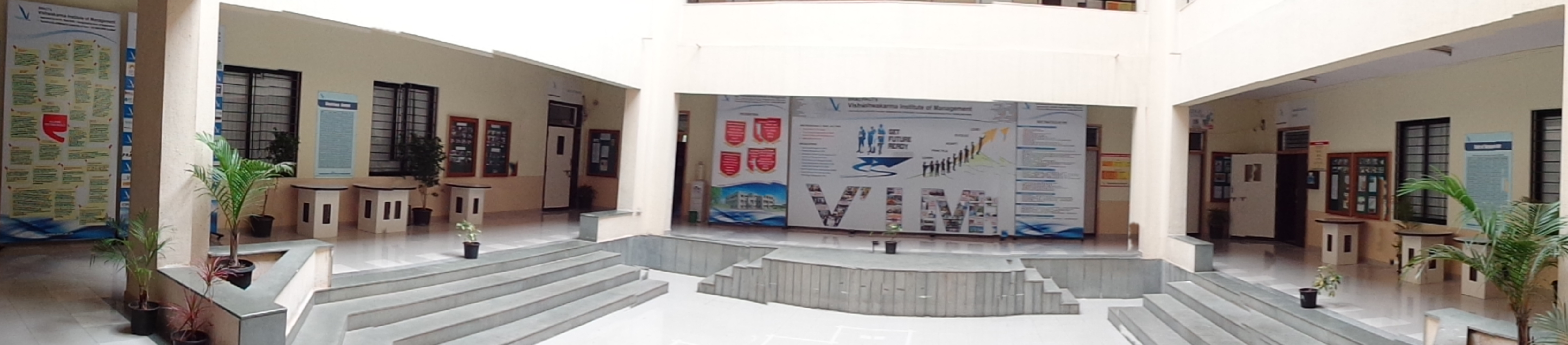 It is the panoramic view of the eventorium of VIM, Pune